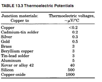 Thermoelectric Potentials